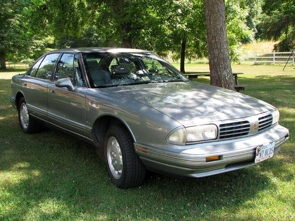 An excellent example of Oldmobile engineering at its very best - the 1994 Olds LSS (Luxury Sport Sedan).